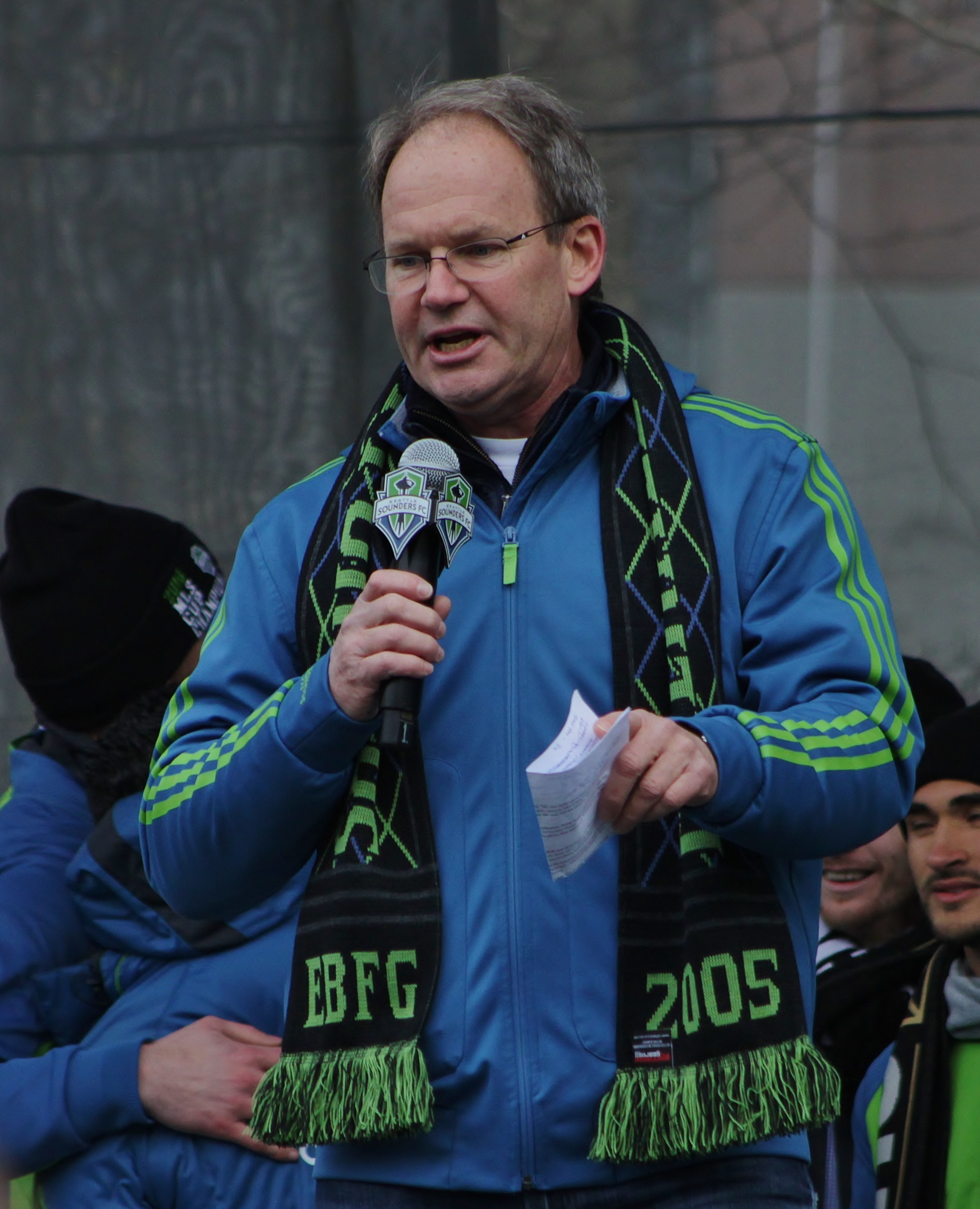 Brian Schmetzer, head coach of the Seattle Sounders, speaking at a victory rally at Seattle Center following the team's MLS Cup 2016 victory.